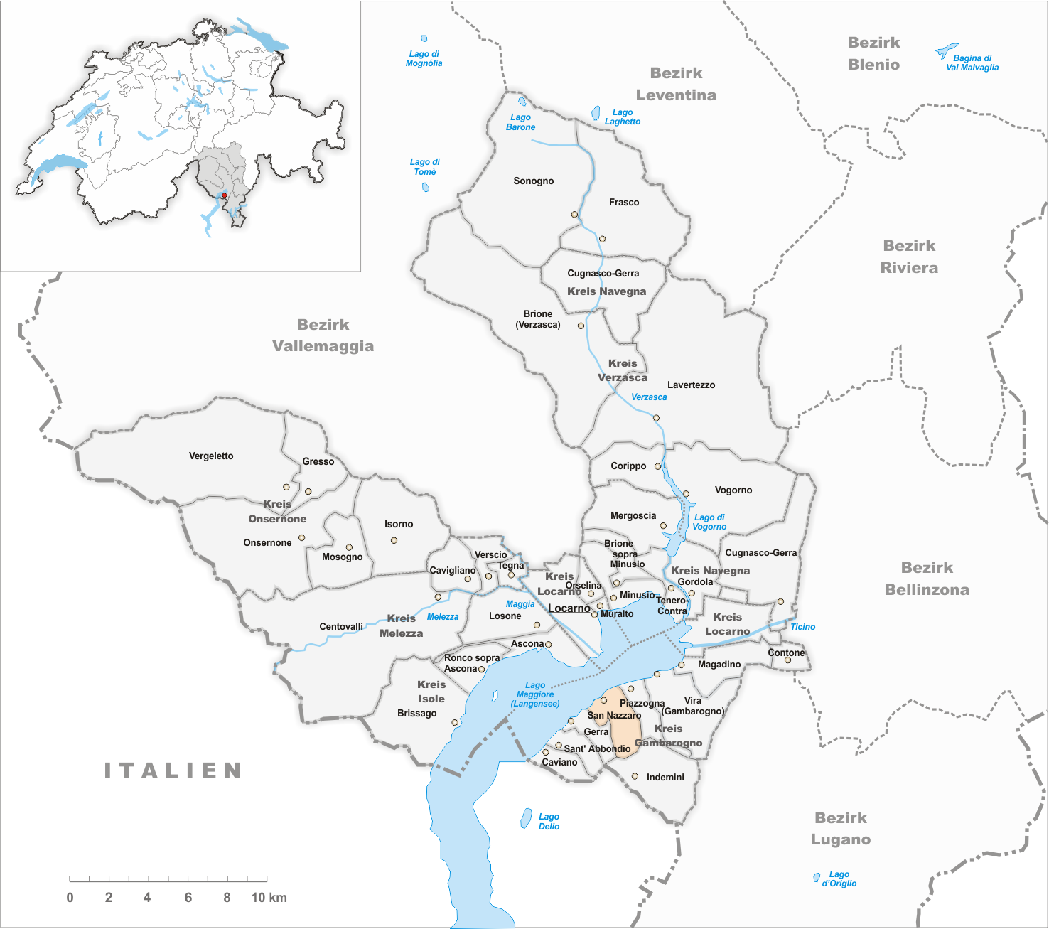 Municipality San Nazzaro Artist: Tschubby